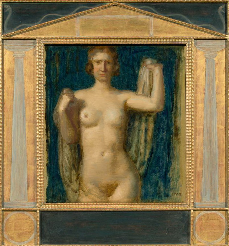 Franz von Stuck: „Phryne“ (1917)